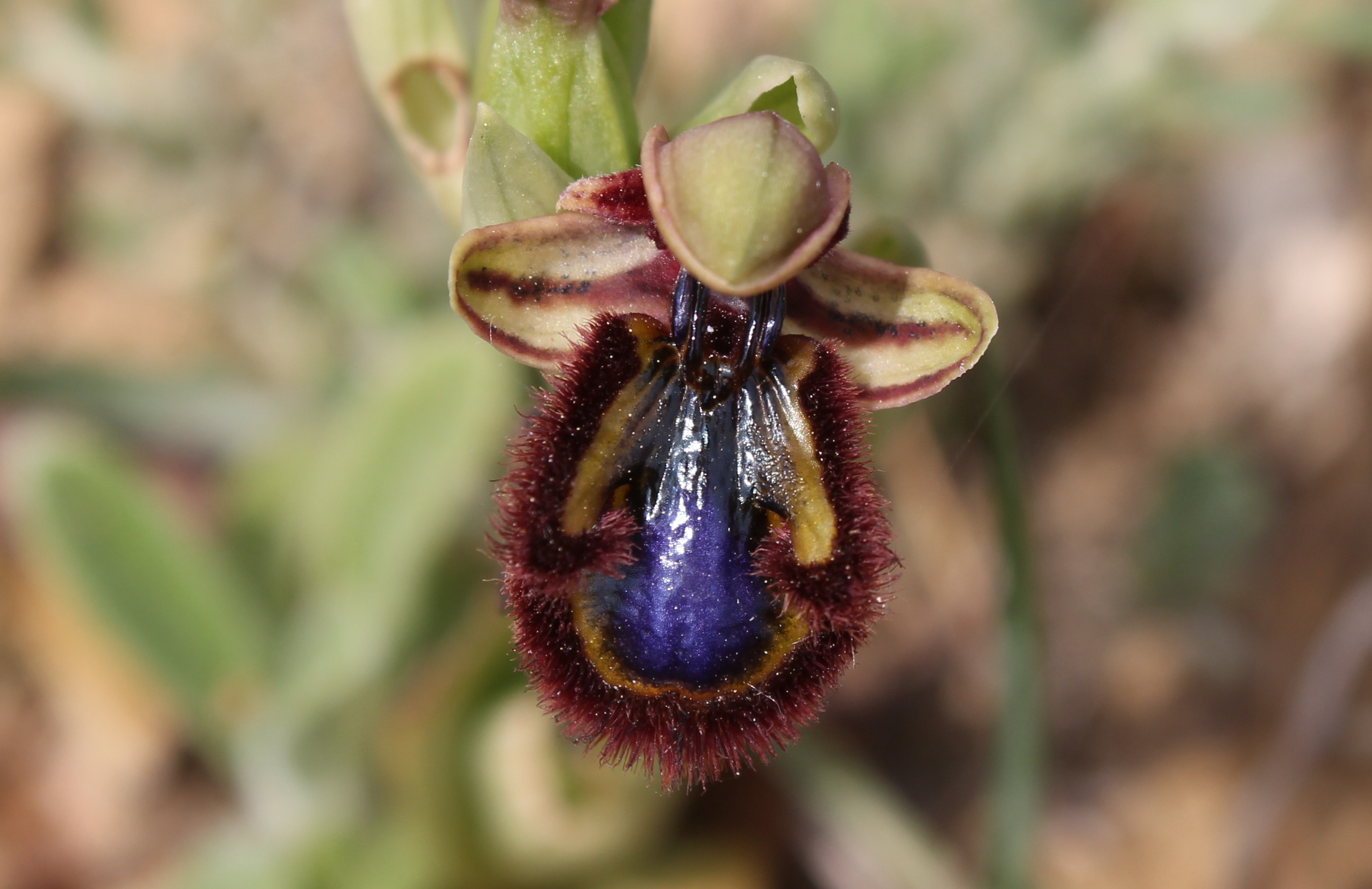 Ophrys speculum labellum